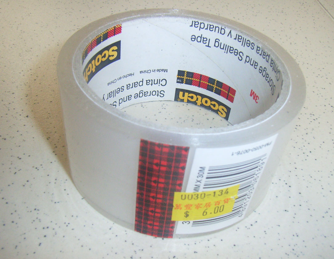 3M brands Scotch Tape. Description says: "Storage and Sealing Tape", in English and Spanish.